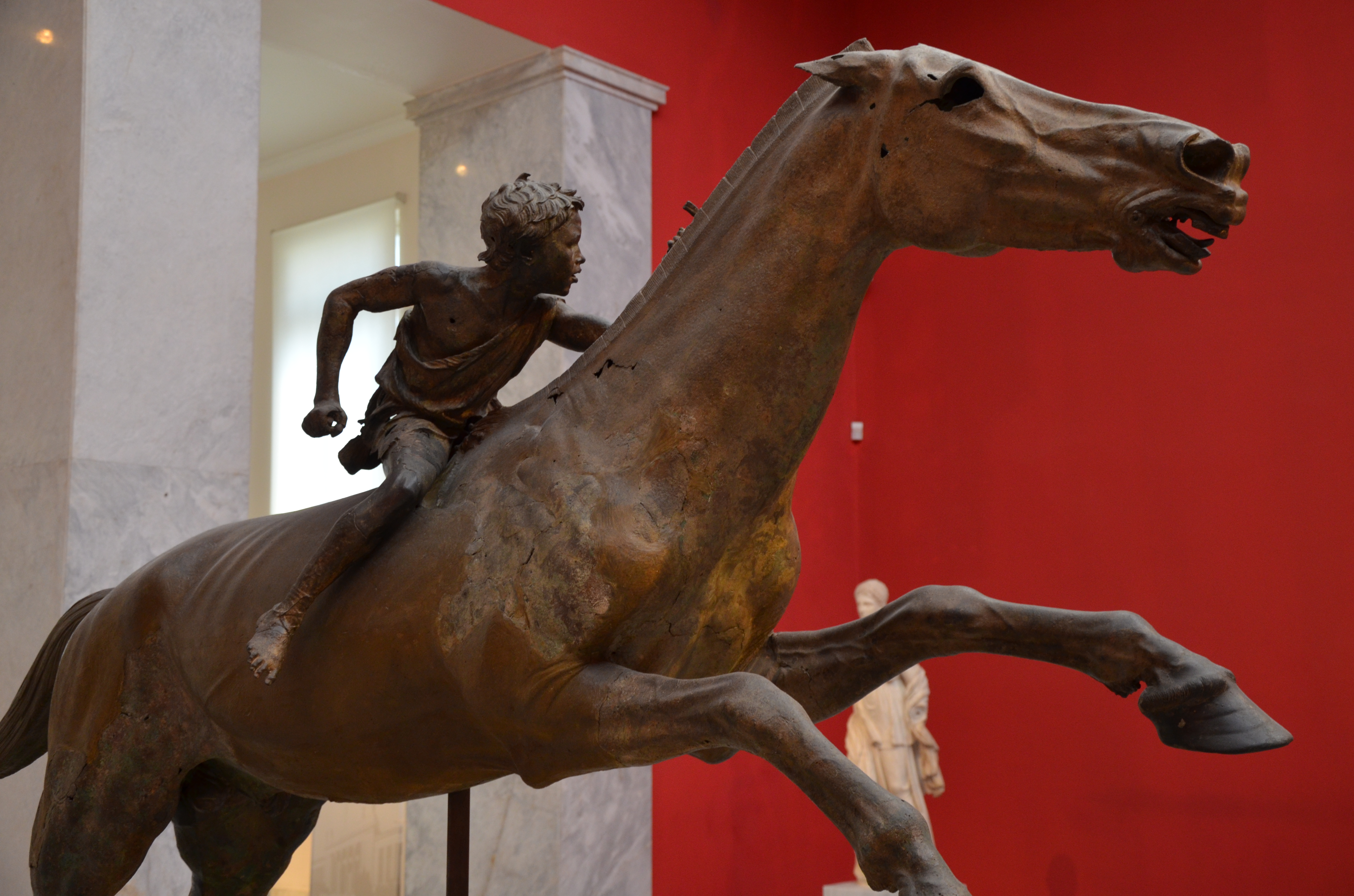 The Artemision Jockey, bronze statue of a horse and young jockey, retrieved in pieces from the shipwreck off Cape Artemision in Euboea, about 140 BC, National Archaeological Museum of Athens